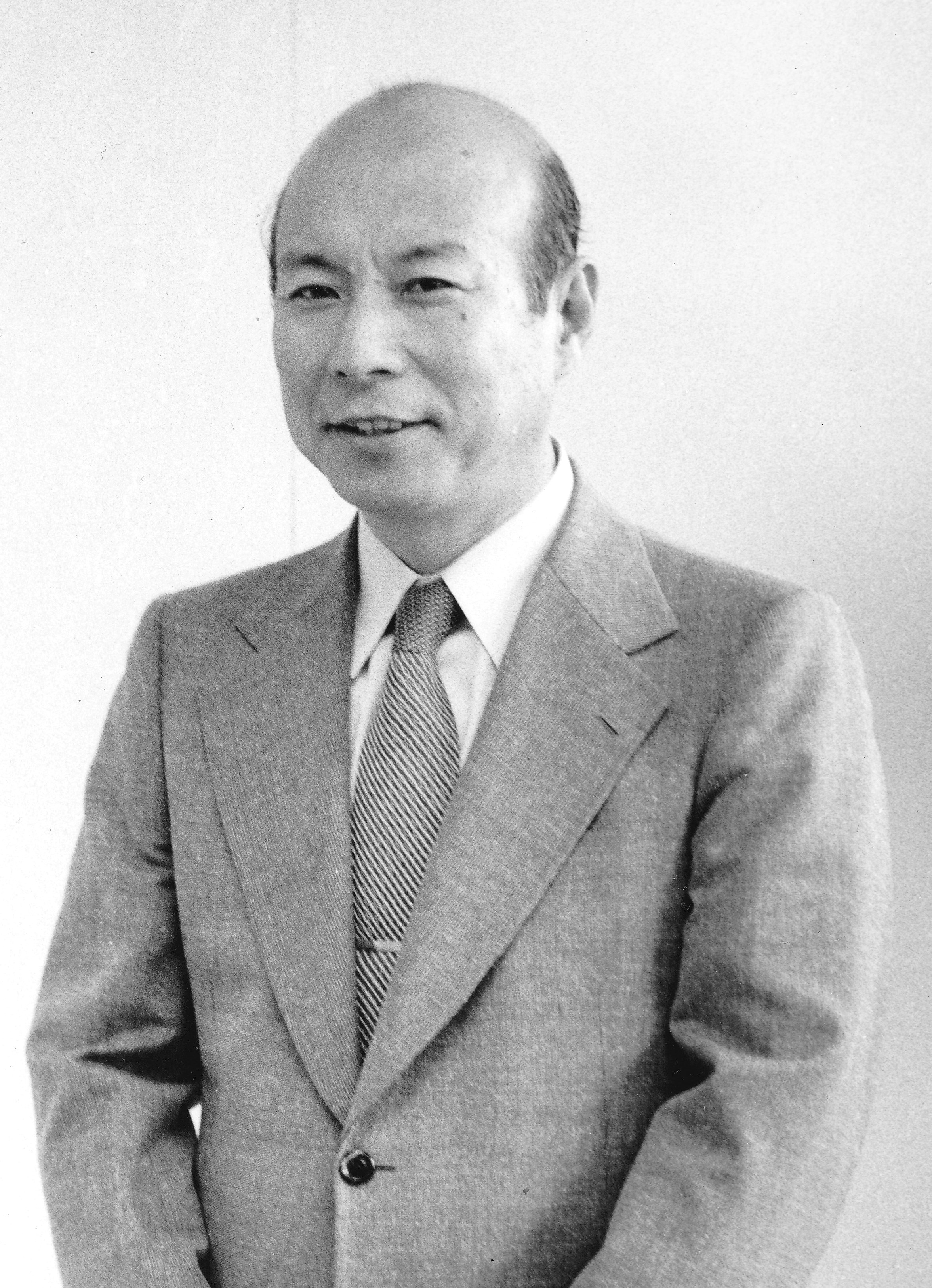 Matsuchima Shigeo